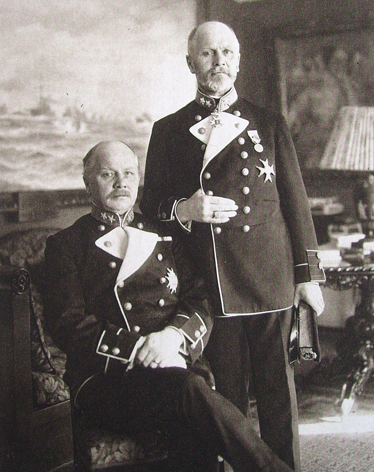 Picture of Gustaf and Wilhelm Dyrssen, Swedish admirals